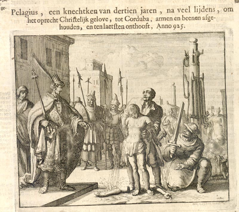 From the Martyrs Mirror, this is an etching by Jan Luyken (1649-1712). The text at the top of the page is translated as follows: "Pelagius, a lad of thirteen years, after much suffering for the true Christian faith, at Cordova, has his arms and legs cut off, and is finally beheaded, A.D. en:925"